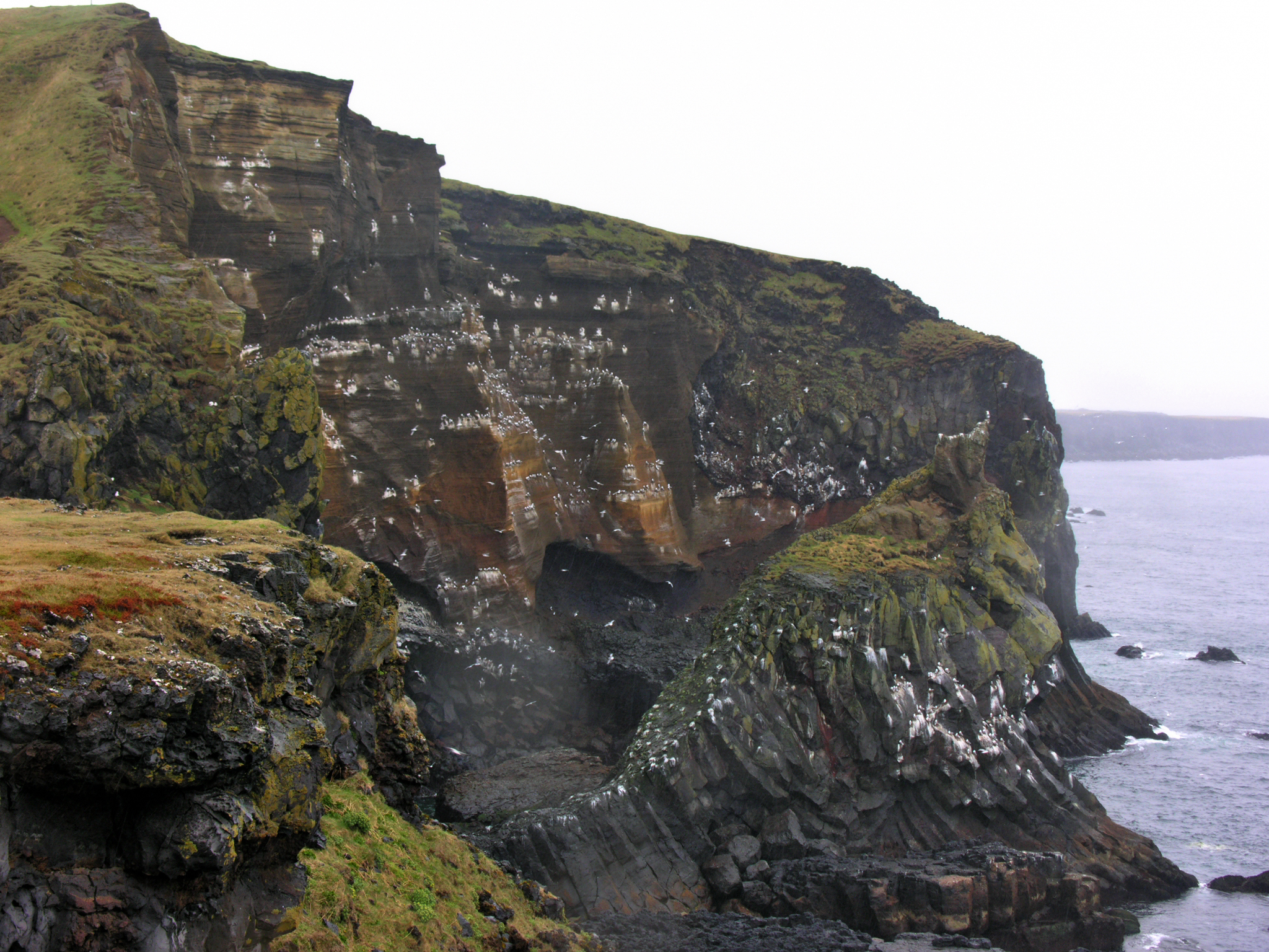 Iceland, views around Snæfellsnes peninsula